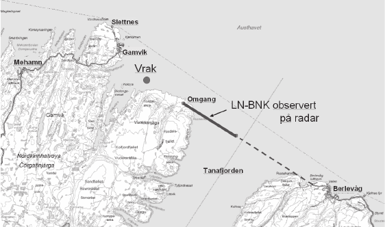 Map of the flight path of Widerøe Flight 933. The thick line is the part observed by radar; "vrak" marks the location of the wreck.